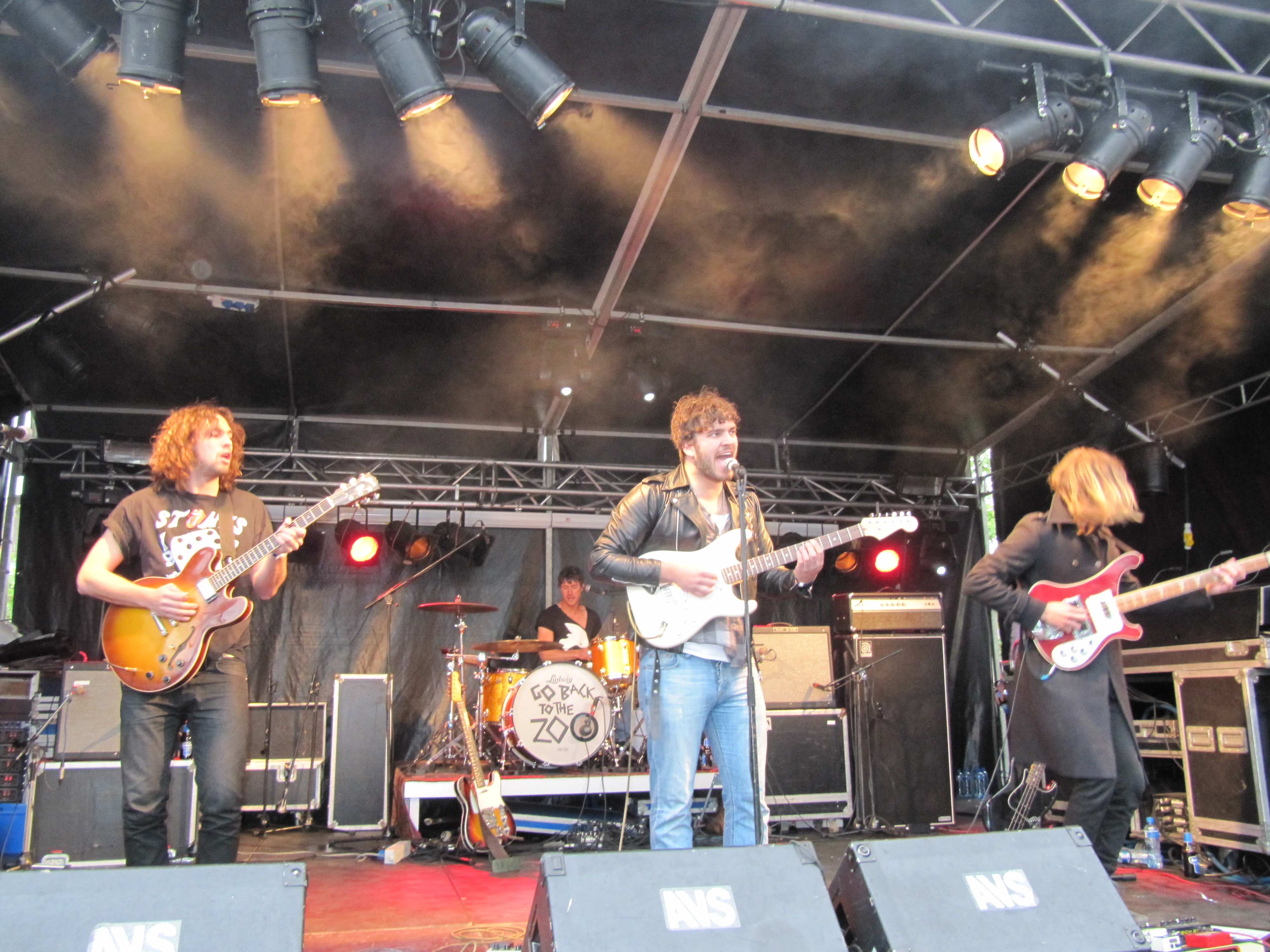 Go Back To The Zoo live at "Op De Tôffel" festival in Vierlingsbeek, NL